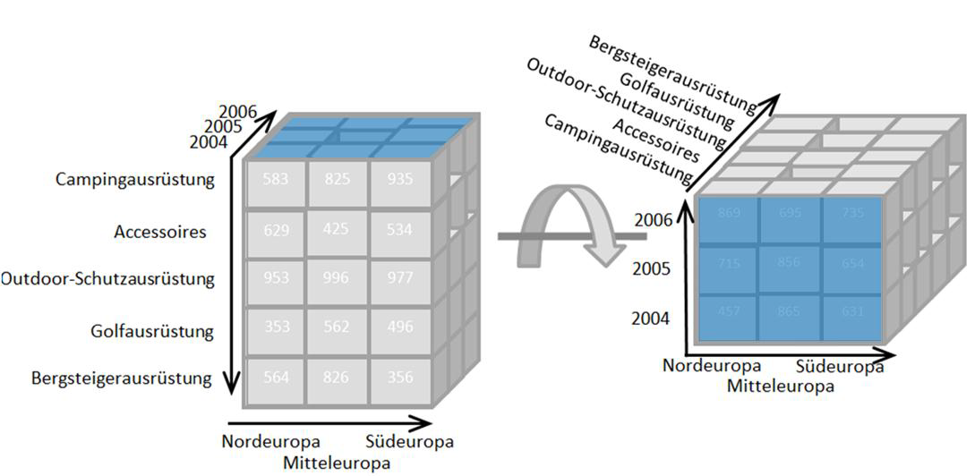 Online Analytical Processing (OLAP) Operation called "pivoting"